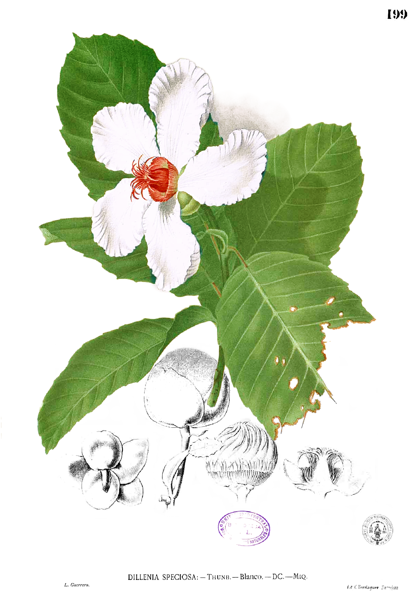 Dillenia philippinensis Plate from book